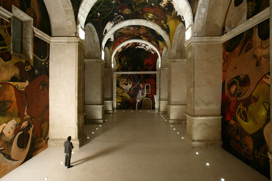 ART CENTER PAINTED MURALS OF ALARCÓN